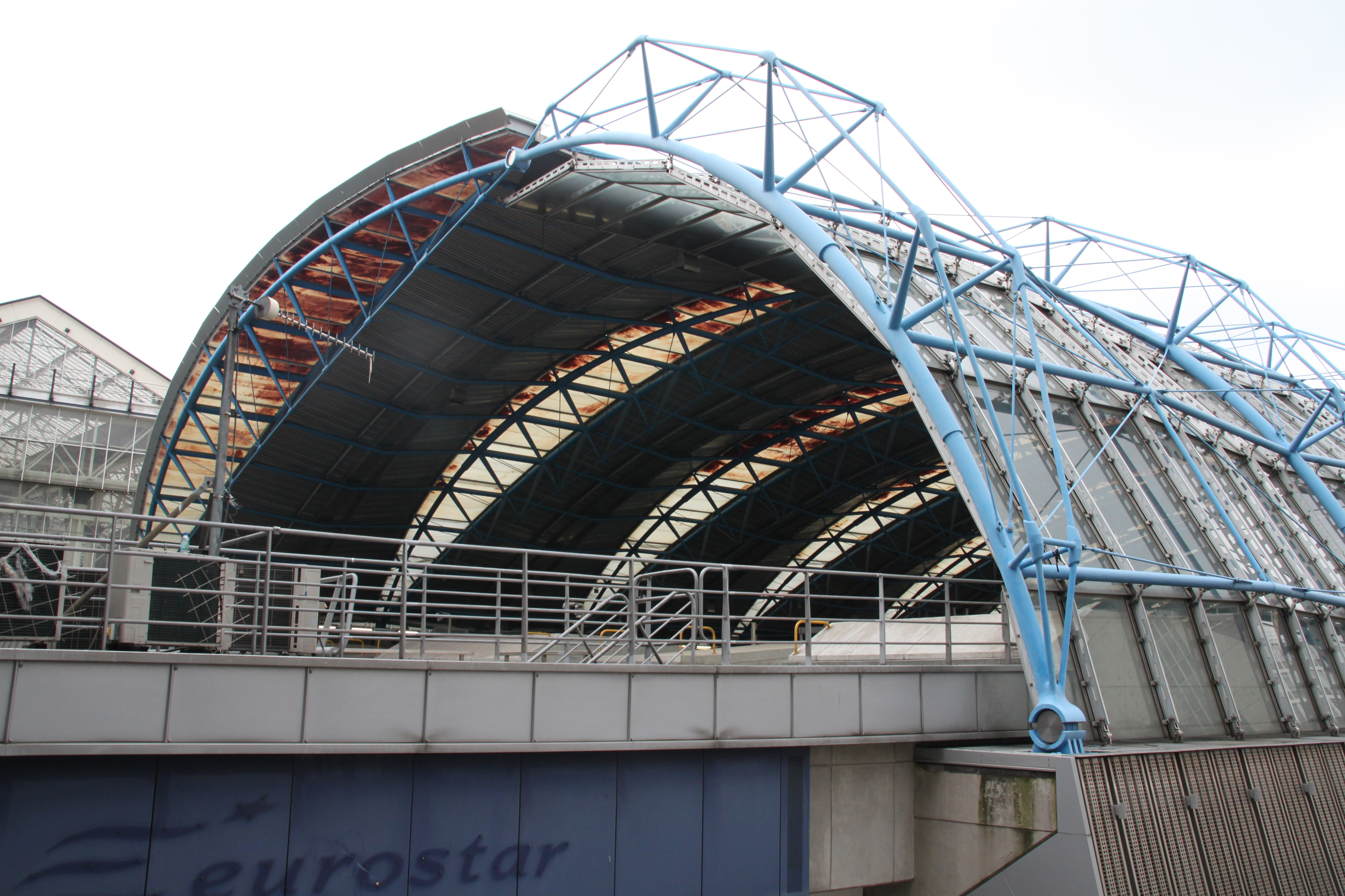 Former Eurostar London Waterloo Station in 2010.